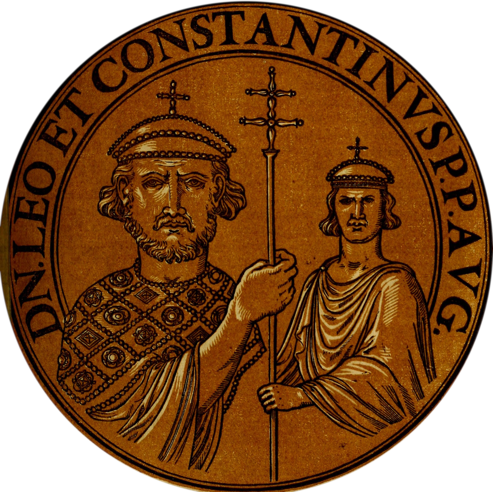 Title: Icones imperatorvm romanorvm, ex priscis numismatibus ad viuum delineatae, & breui narratione historicâ Year: 1645 (1640s) Authors: Goltzius, Hubert, 1526-1583 Gevaerts, Jean-Gaspard, 1593-1666 Rubens, Peter Paul, 1577-1640 Subjects: Emperors Emperors Numismatics, Roman Publisher: Antverpiae, Ex officina plantiniana Balthasaris Moreti Text Appearing Before Image: fuas caftraque Francis fortiflime munijt, ac domum reuerfus eft. Nomeneiustarn late cognitum fuit, vt omnibus nationibus terrori fuerit. Natus autem eft in oppidoIngelheym in Germania ad Rhenum, non procul a Moguntia. Eius parentum heredita-riumac priitium dominium fuiffe dicitur Comitatus Palatinus circa Rhenum fluuium-,quamobrem Palatini Comites appellabantur, fed tamen vt Maiores domus Regis Fran-cia: , quemadmodum pagina 208. abunde didum eft. Nam Franci omnes , tamqui in Franconia , quam qui in Francia agebant, vni erant Regi fubiedi. Quemad-modum vero Carolus poftea ad Imperium Romanum peruenerit, & quemadmodumquarta Monarchia in Germania initium cepefit, mox dicetur. Leo autem aduerfus Tar-taros ac Saracenos profedus, audita illorum vidoria, vi & crudelitate, domum reuerfuseft; atque in adminiftratione Imperij plane defperabat. Poftea ardentiffima febri obijt, Im-periumque vxori fua: Hirena: ac Conftantino filio reliquit. 211 ex. qVO MI HI FORTVNA,SINON CONCEDITVR VTI? Text Appearing After Image: Cum filio obijt quinto Imperij Orientals anno.